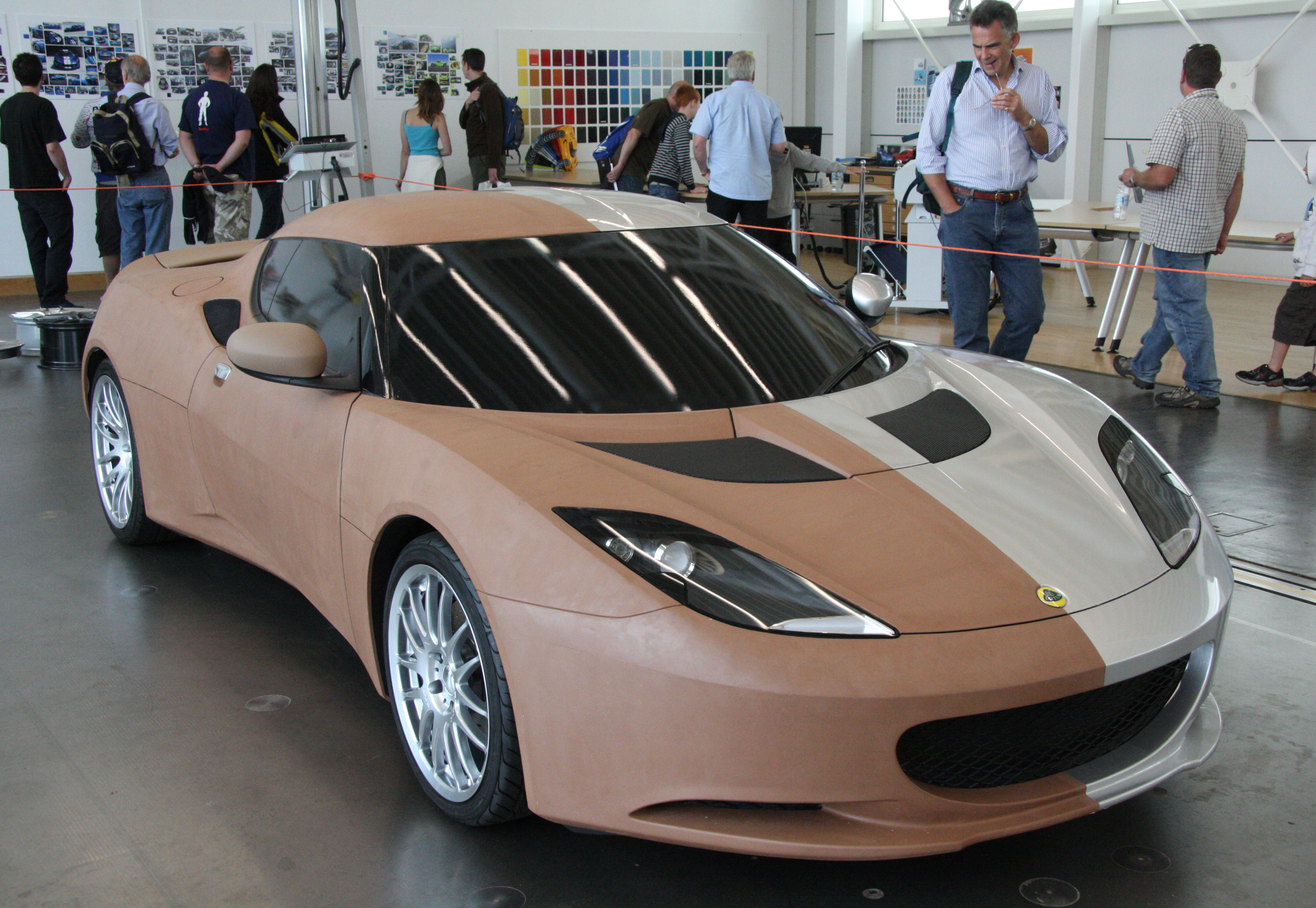 Lotus Evora clay model at Lotus 60th Celebration